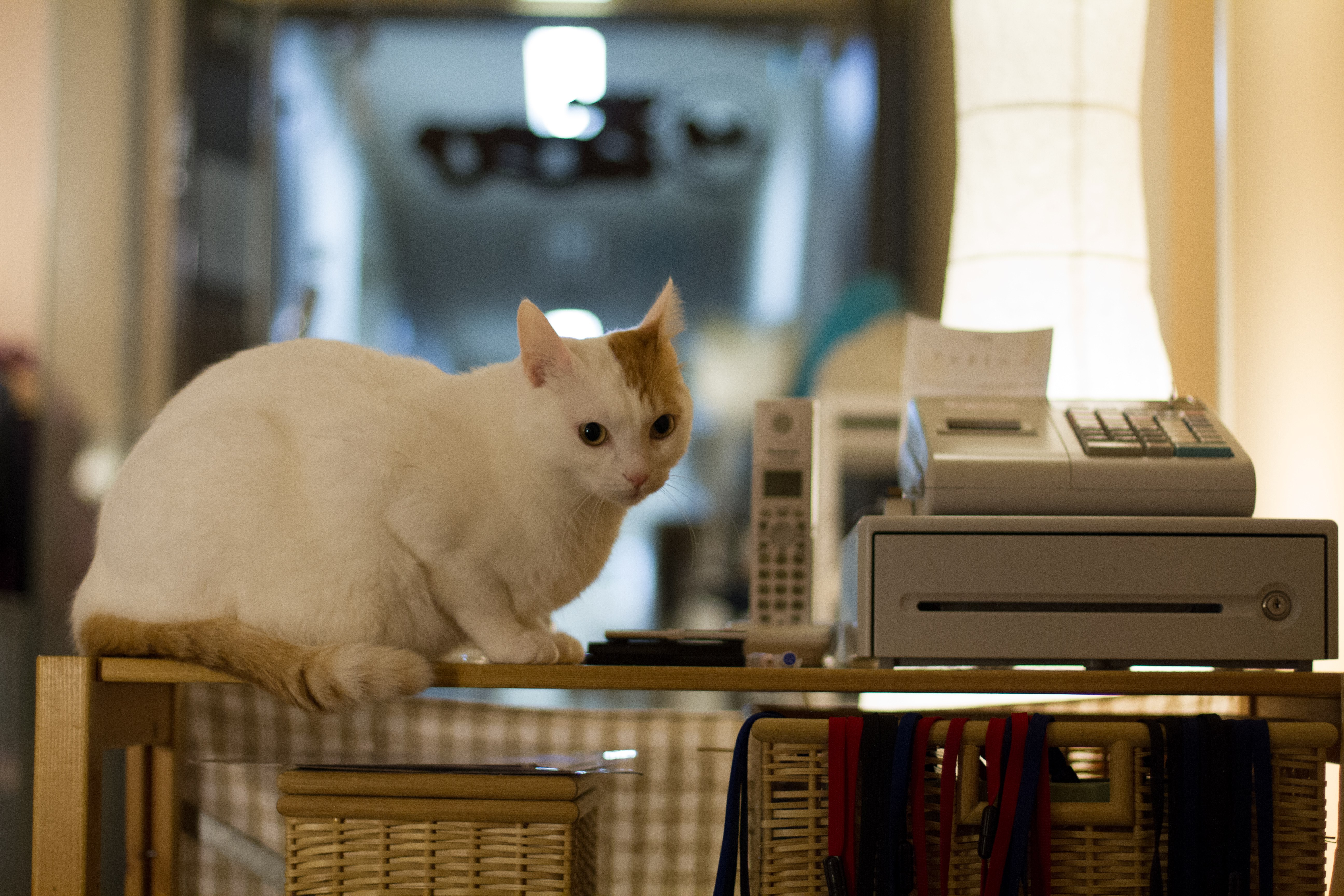 At cat cafe "Nekorobi", this cat do a shop assistant. He is such a talented cat!! Sorry everyone it's April fools day! He just jumped on the desk. He might wanted to be a shop assistant. Name: Mocchy Gender: Male Kind: Mix 猫カフェ「ねころび」ではこの猫ちゃんが店番をしてくれます。なんという賢い猫ちゃんでしょうか！！ごめんなさいエイプリルフールネタでした。本当は机の上に飛び乗っただけでした。店番をしたかったのかもしれませんね。 名前：もっちー 性別：男の子 種類：MIX [ Canon EOS 7D, Canon EF 50mm f/1.4 USM, f/1.8, 1/60sec, ISO800, Lightroom 4 ]